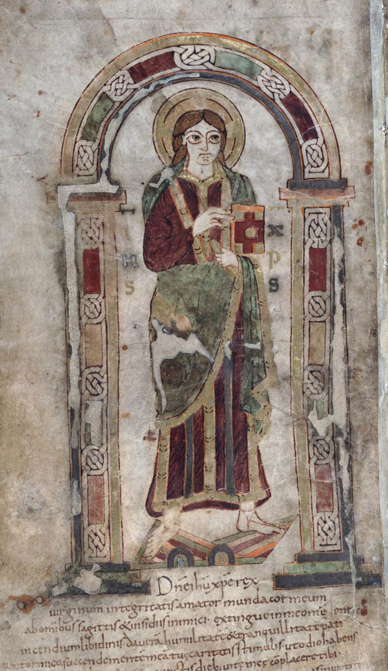 miniature of Jesus Christ in the 8th century illuminated manuscript "Psaultier de Montpeller" in French or "Psalter von Montpellier" in German, that was made in the then Bavarian monastery of Mondsee near Salzburg in what is now Upper Austria, the codex is now found under the signature Ms. H409 in the Bibliothèque Interuniversitaire Médicine de Montpellier, France